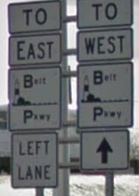 Belt Parkway standard sign